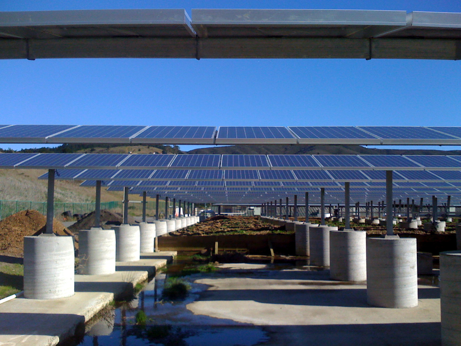 Solar panel on top of Pacifica's Waste Water treatment plant